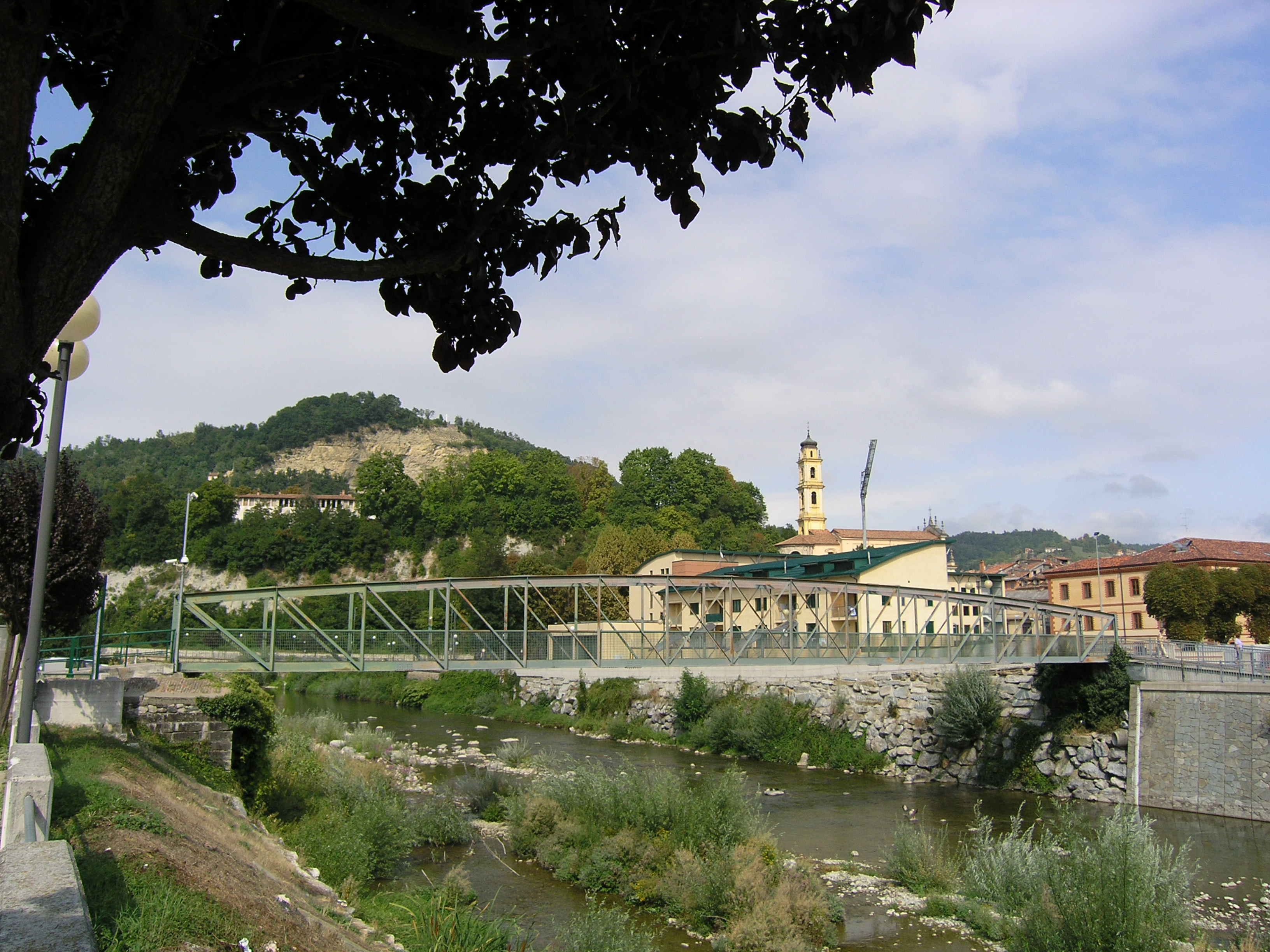 Passerella pedonale sul fiume Tanaro, Ceva (Italy)